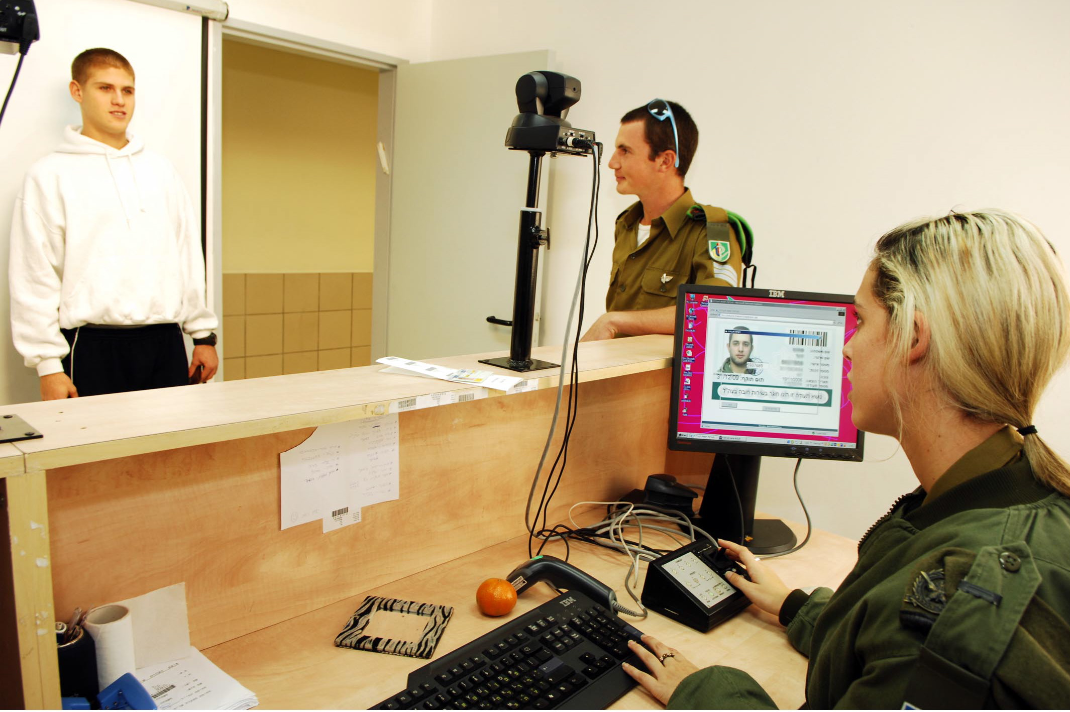 Soldiers recruited for the Givati Brigade and Field Intelligence Units take their military ID photos. The soldiers went through the induction procedure, which includes giving detailed information, having their photo taken, receiving equipment and more. The soldiers will go through a training course, making them the first combat recruits after the 2nd Lebanon War.